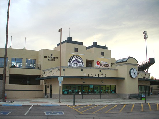 Hi Corbett Field in Reid Park, Tucson, Arizona, as seen from the parking lot. Spring training home of the Colorado Rockies baseball team, home of the newly-reconstituted Tucson Toros baseball team (Golden Baseball League) and former home of the old AAA Tucson Toros, Cleveland Indians (spring training) and other baseball and softball clubs.